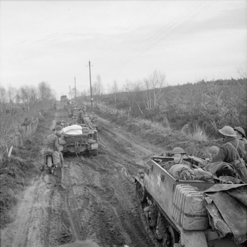 The British Army in North-west Europe 1944-45 Universal carriers of 43rd (Wessex) Division advance along a muddy lane during the advance on Geilenkirchen, 18 November 1944.